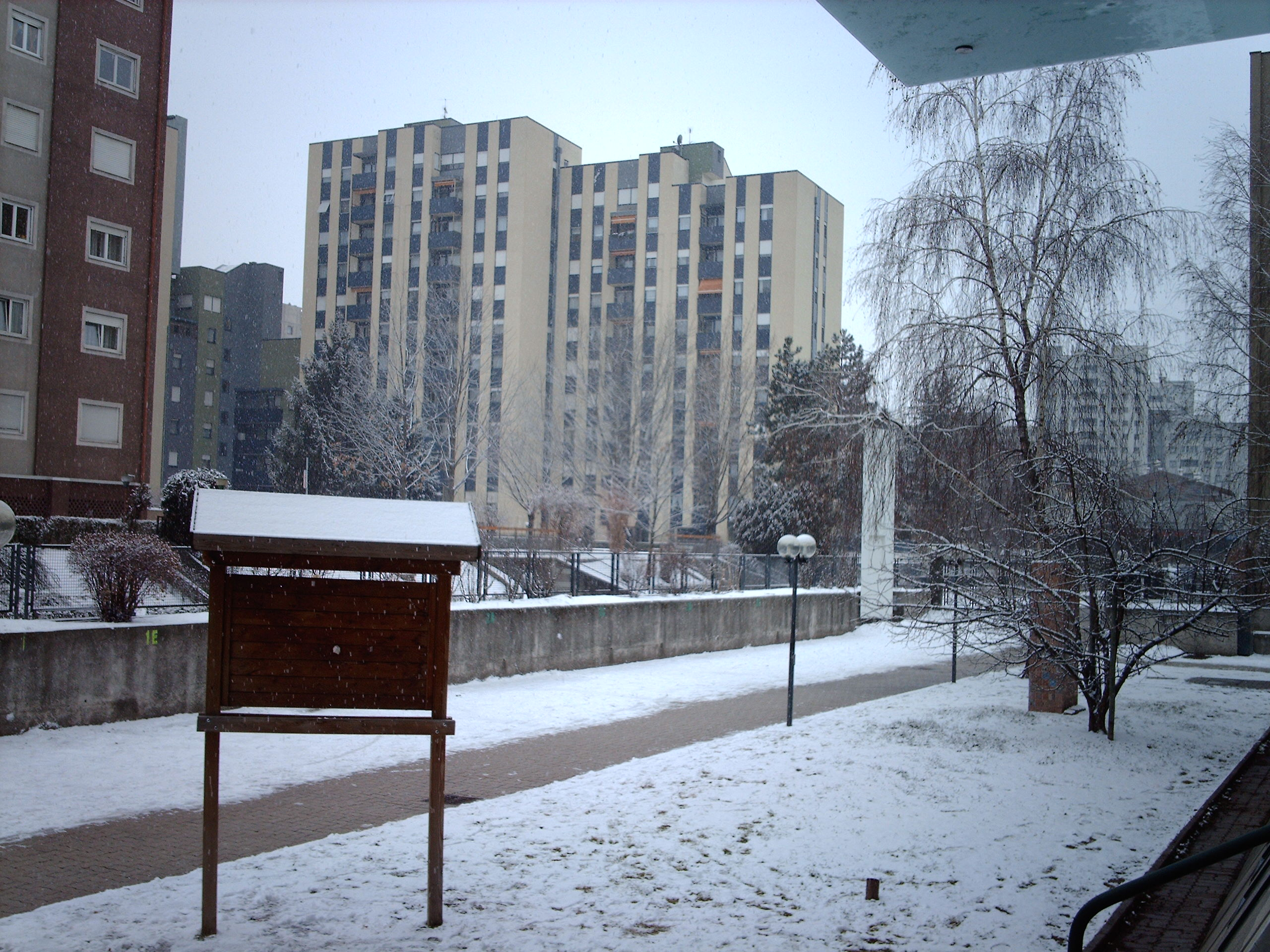 View on the Europa area in the city district of Don Bosco in Bolzano-Bozen